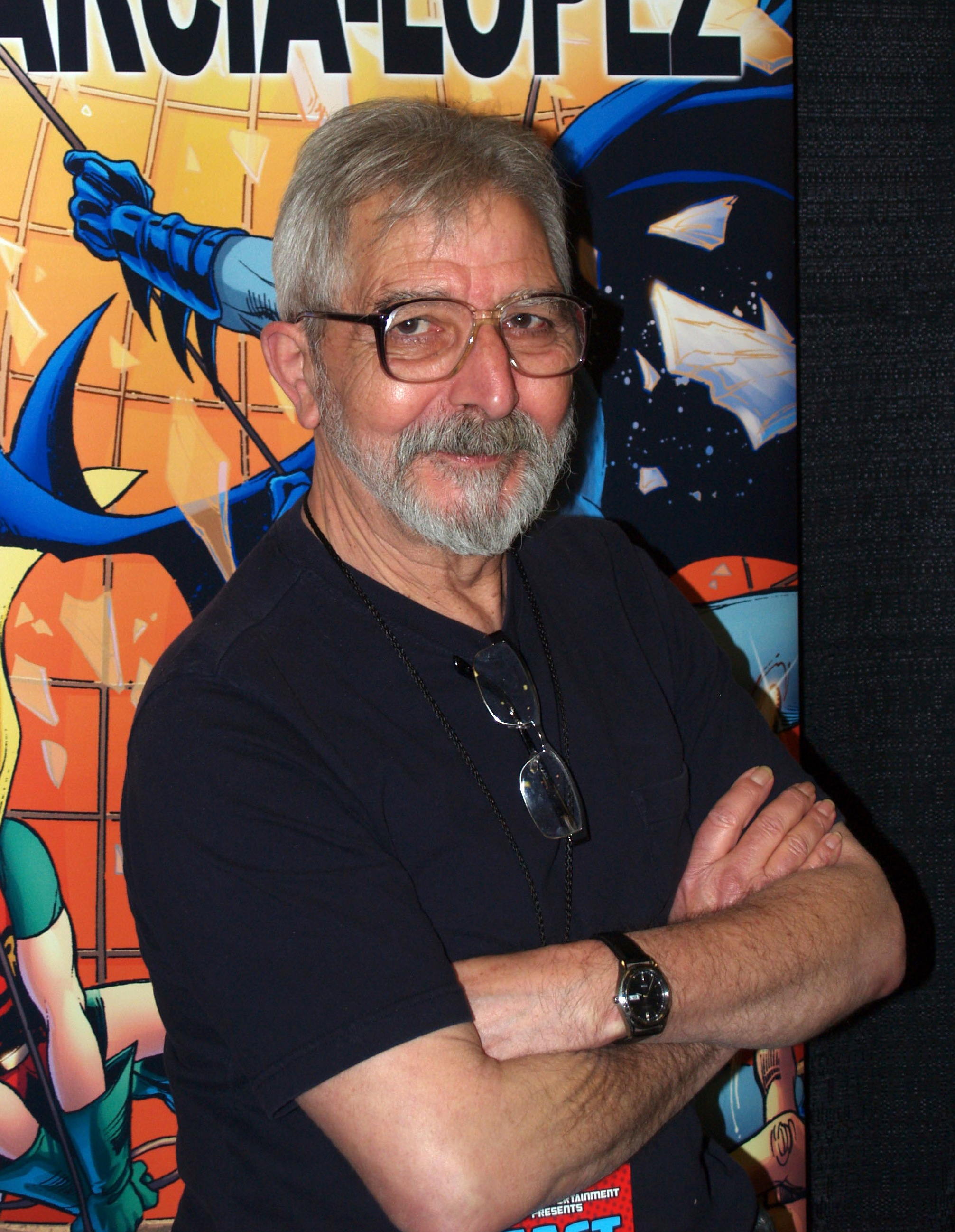 Comics creator José Luis García-López at the Meadowlands Exposition Center in Secaucus, New Jersey on April 16, 2016, Day 1 of the 2016 East Coast Comicon. This photo was created by Luigi Novi. It is not in the public domain, and use of this file outside of the licensing terms is a copyright violation.